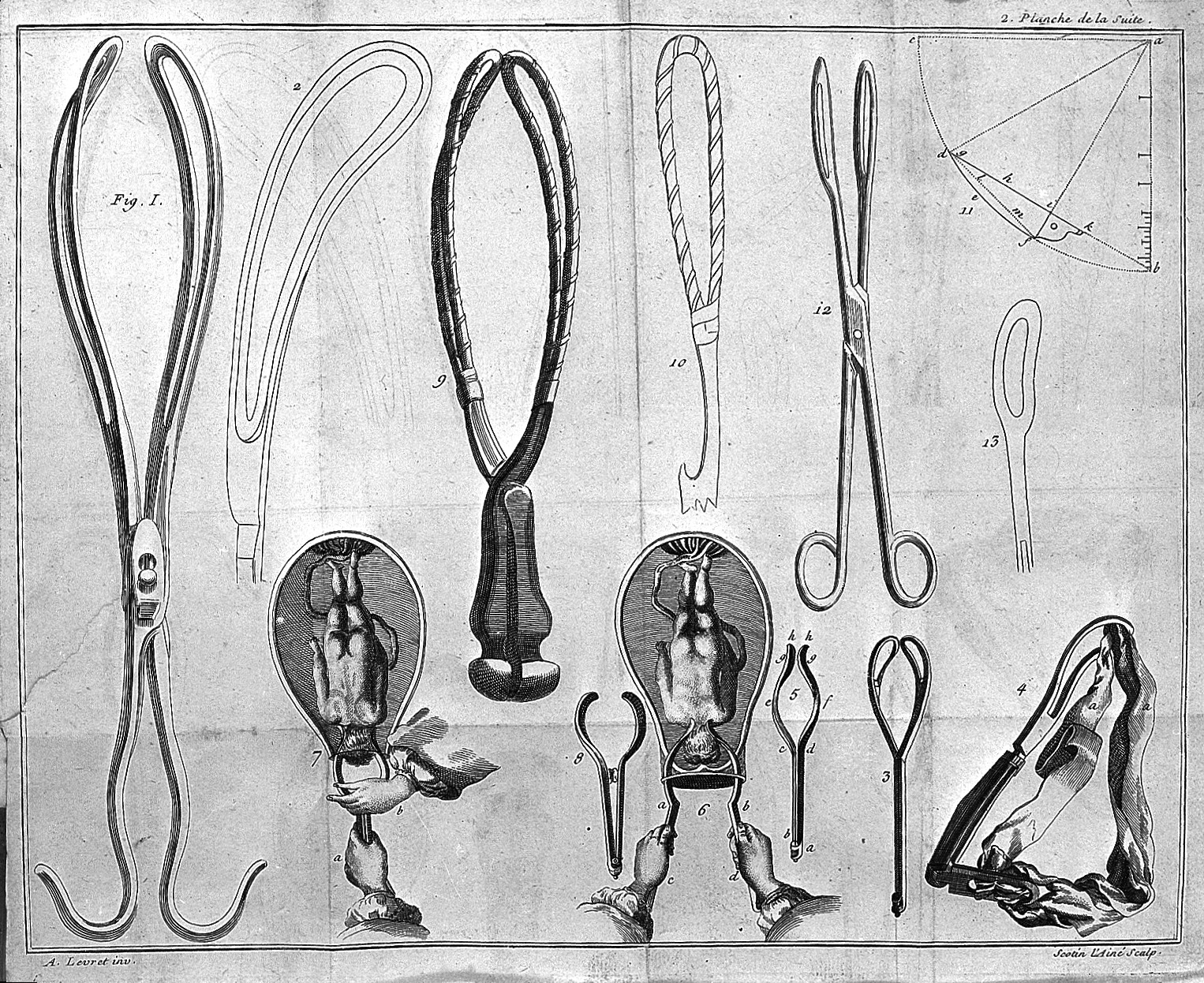 Obstetrical instruments and demonstration of them being used. Rare Books Keywords: Midwifery; Obstetrics; Surgical Instruments; Andre Levret